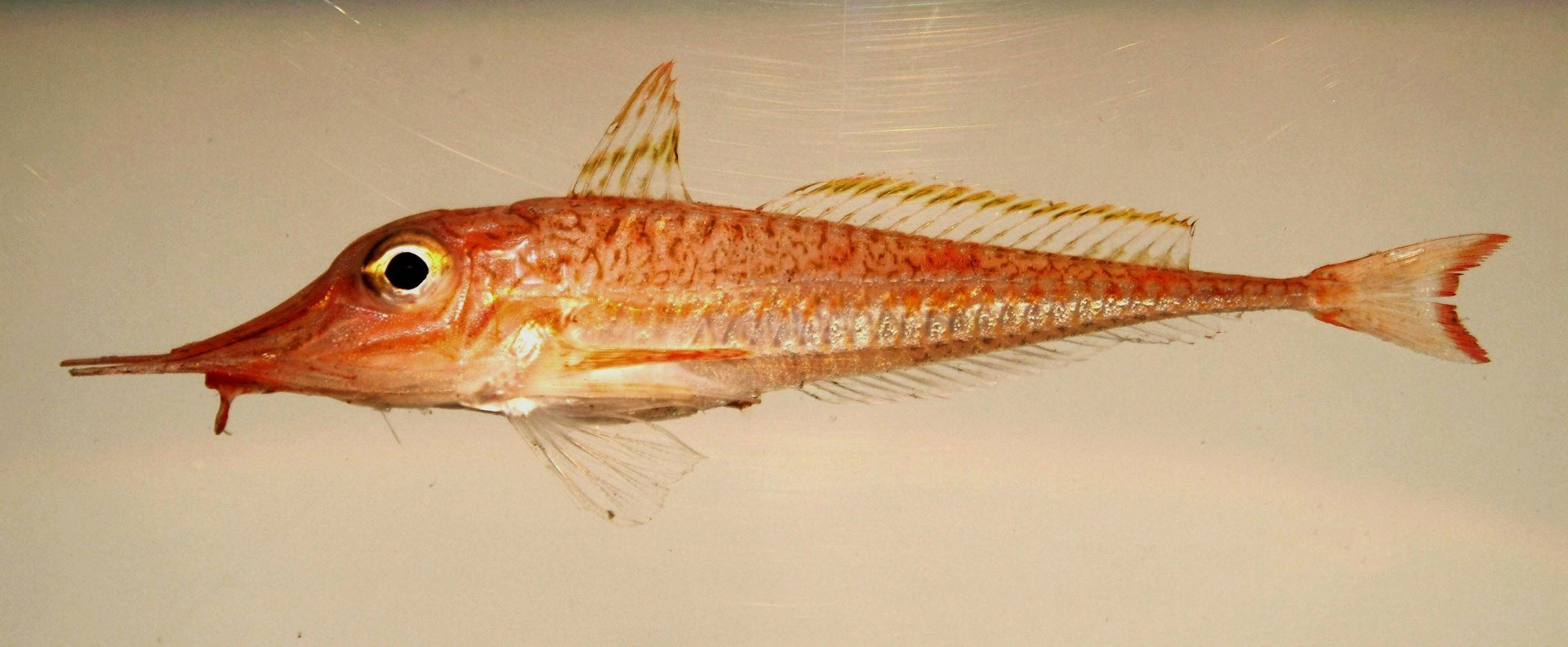 Slender searobin ( Peristedion gracile )